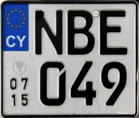 2013 Cyprus motorcycle plate, seen in Liechtenstein